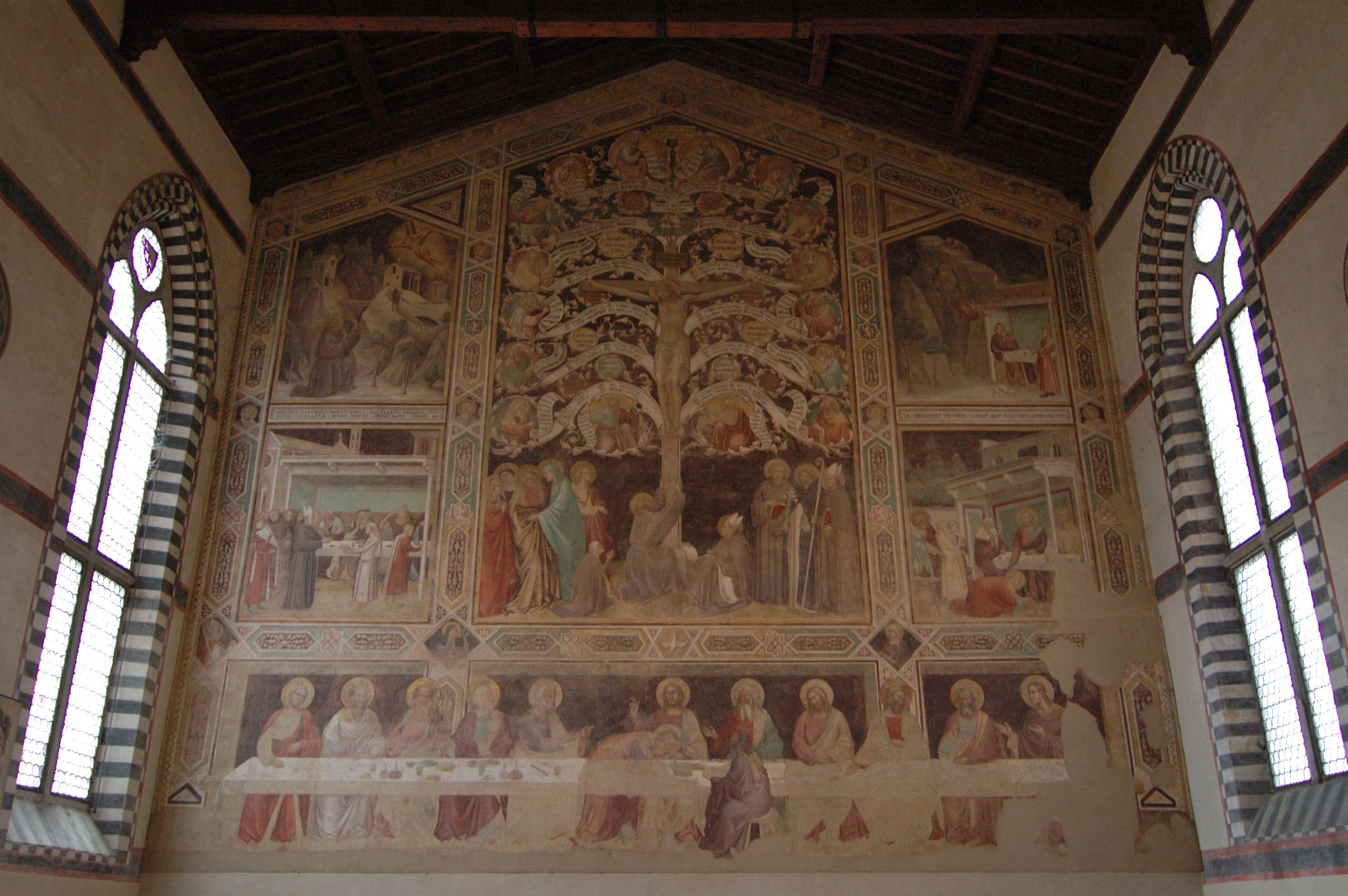 see above